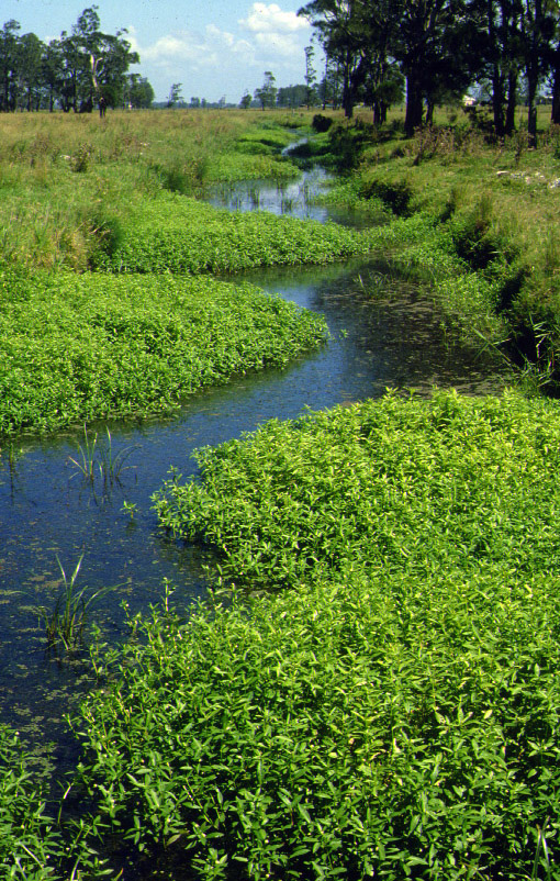 A creek infested with alligator weed.